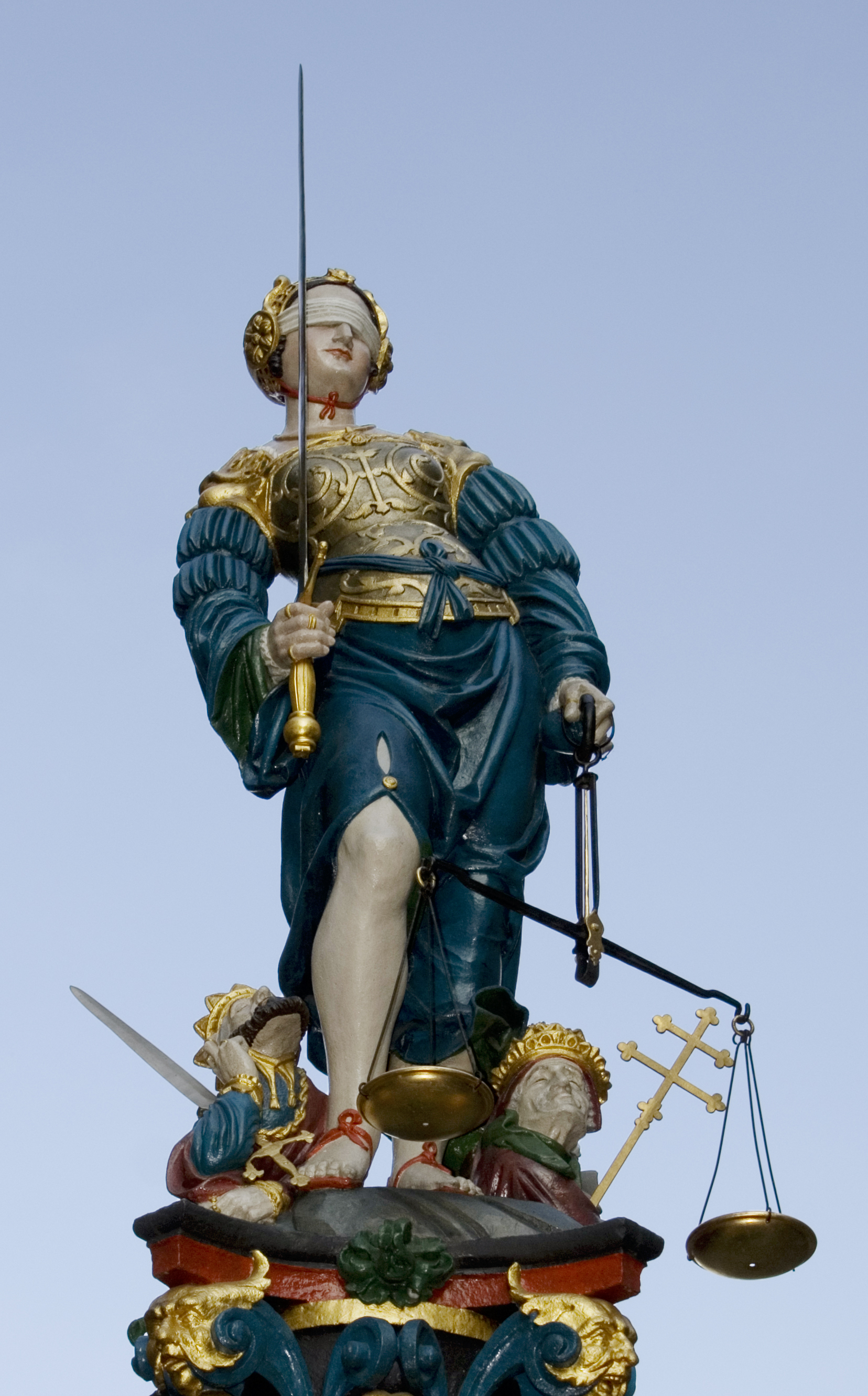 Statue of Lady Justice on the Well of Justice in Bern, Switzerland. Sculptor: Hans Gieng, 1543.